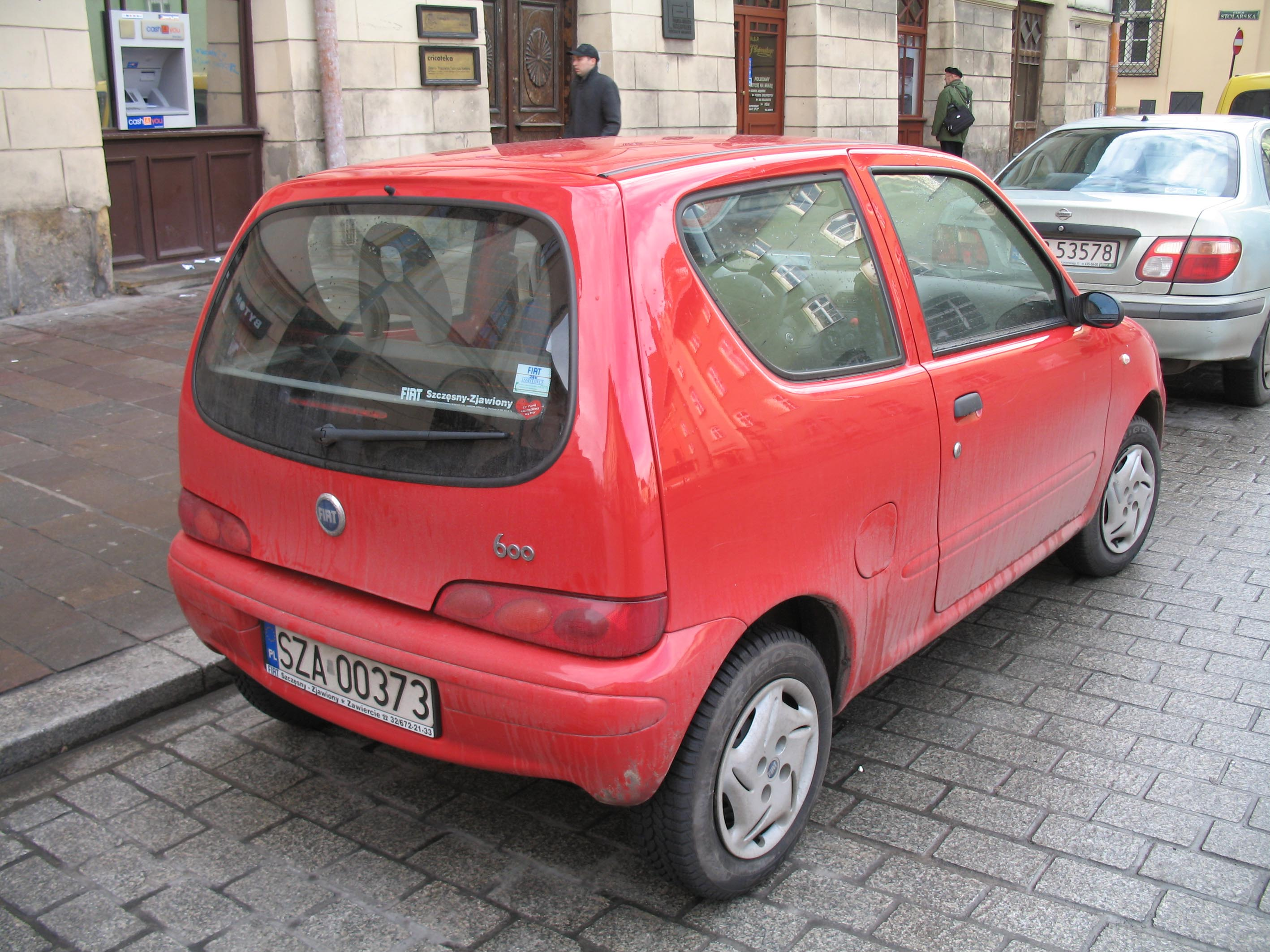 Fiat 600 car in Kraków, Poland.